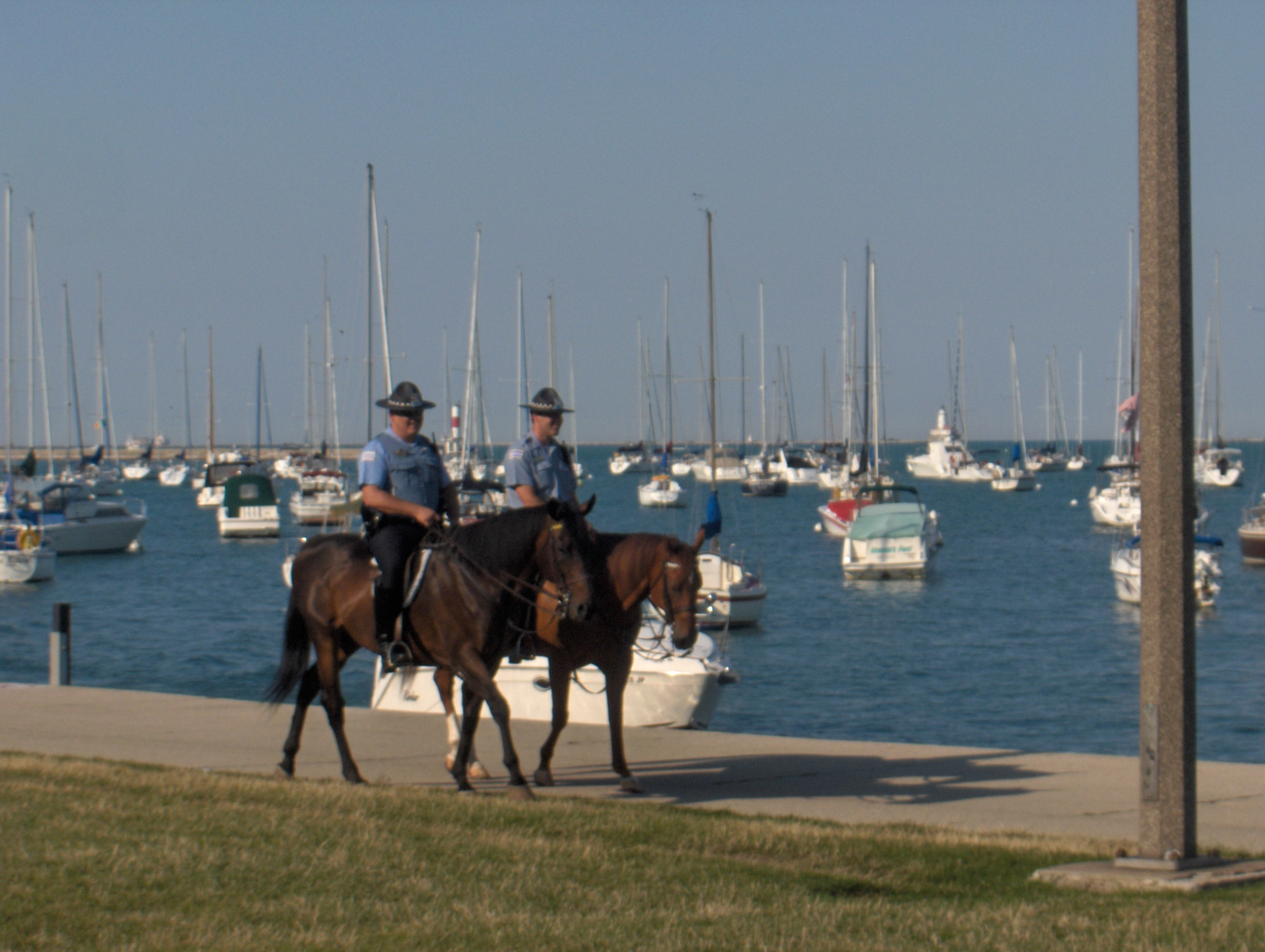 The Chicago mounted police, July 23 2007 in Grant Park, Chicago, Illinois